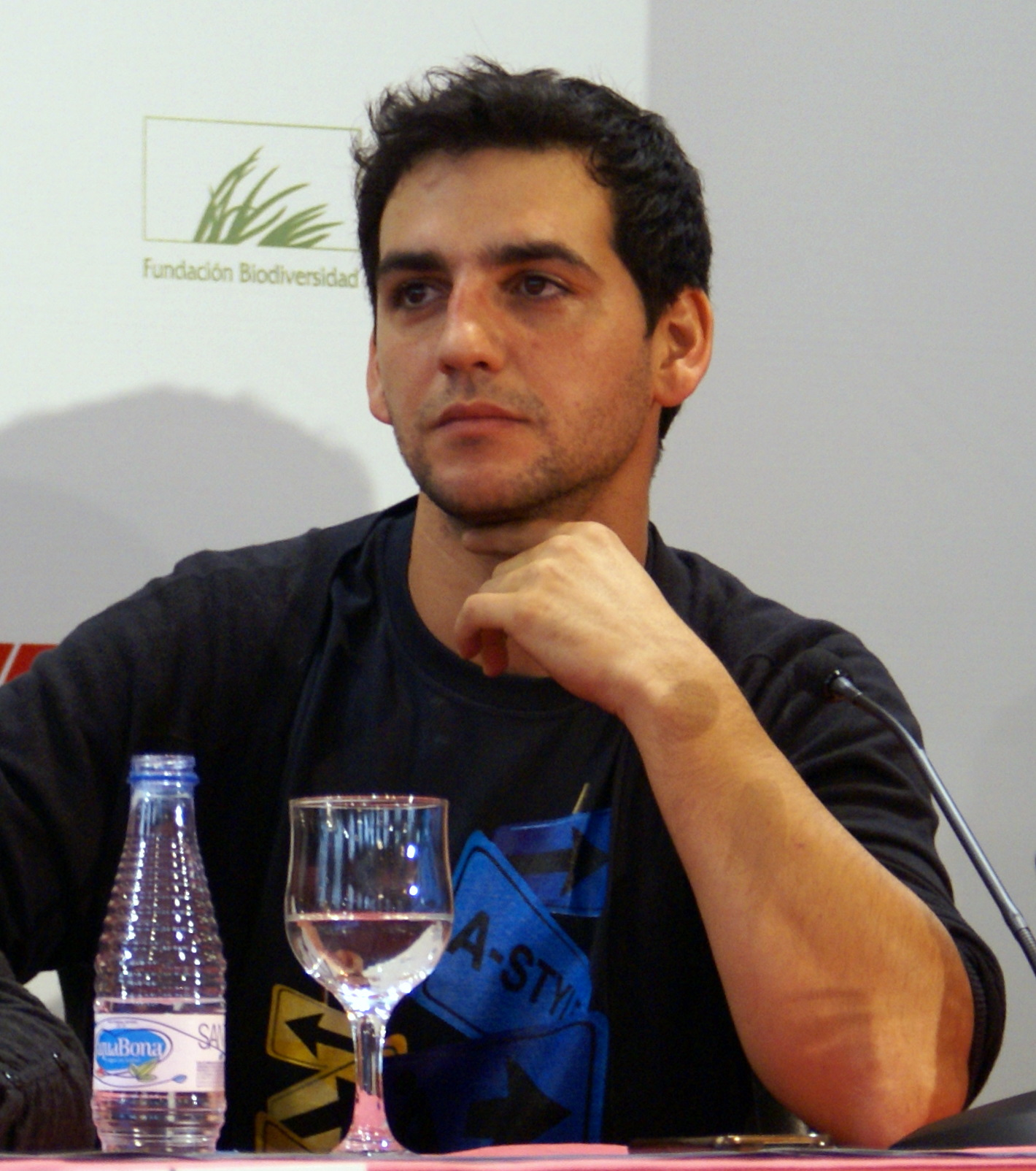 Fran Perea, Spanish singer and actor.